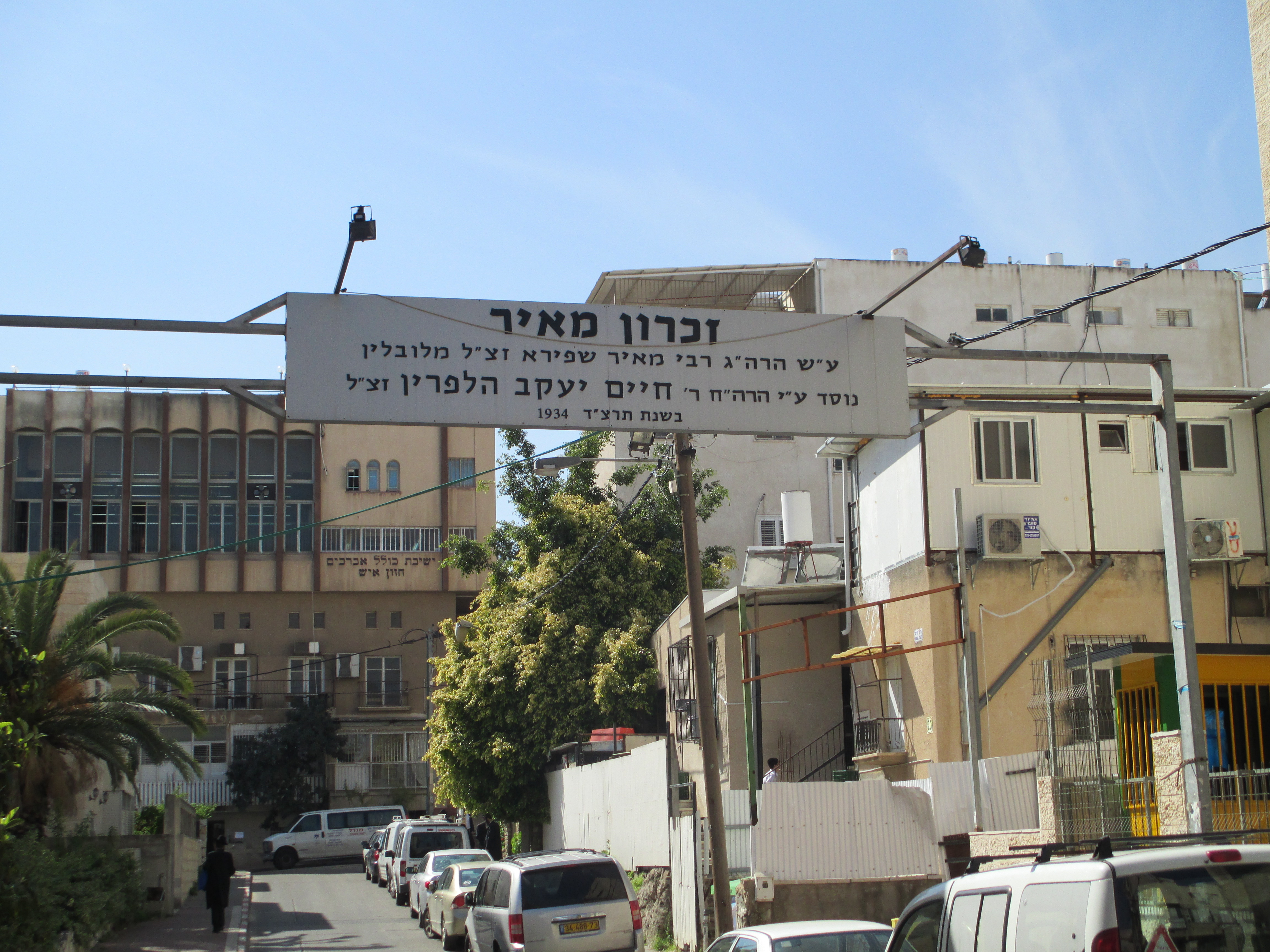 zichron meir neighborhood in bnei brak שלט בשכונת זכרון מאיר ברח' מהרש"ל בבני ברק